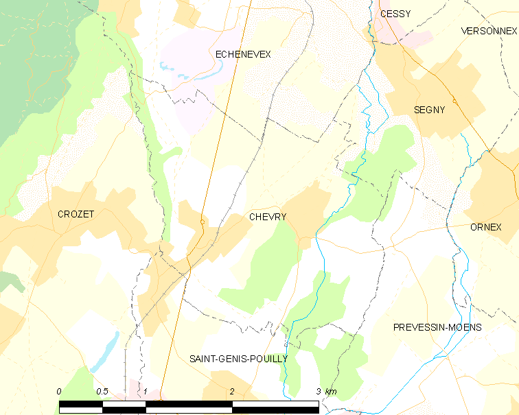 Map of French commune: Chevry Map commune FR insee code 01103.png